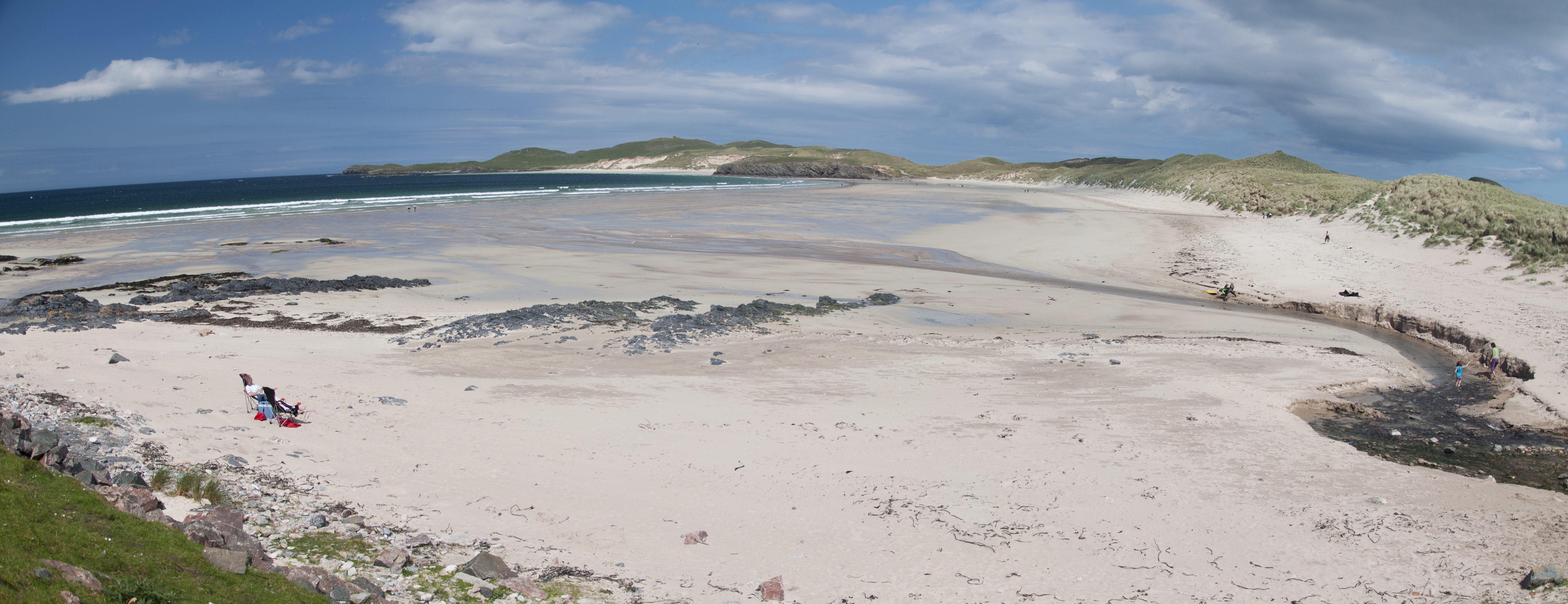 Balnakeil Bay , Sutherland, Scotland